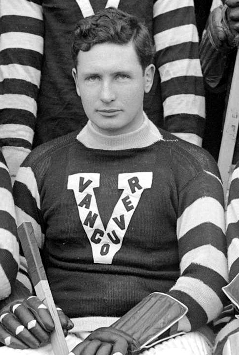 Hockey player Frank Patrick of the Vancouver Millionaires club. The picture is a crop out of a larger team photo taken in the 1913–14 PCHA season.